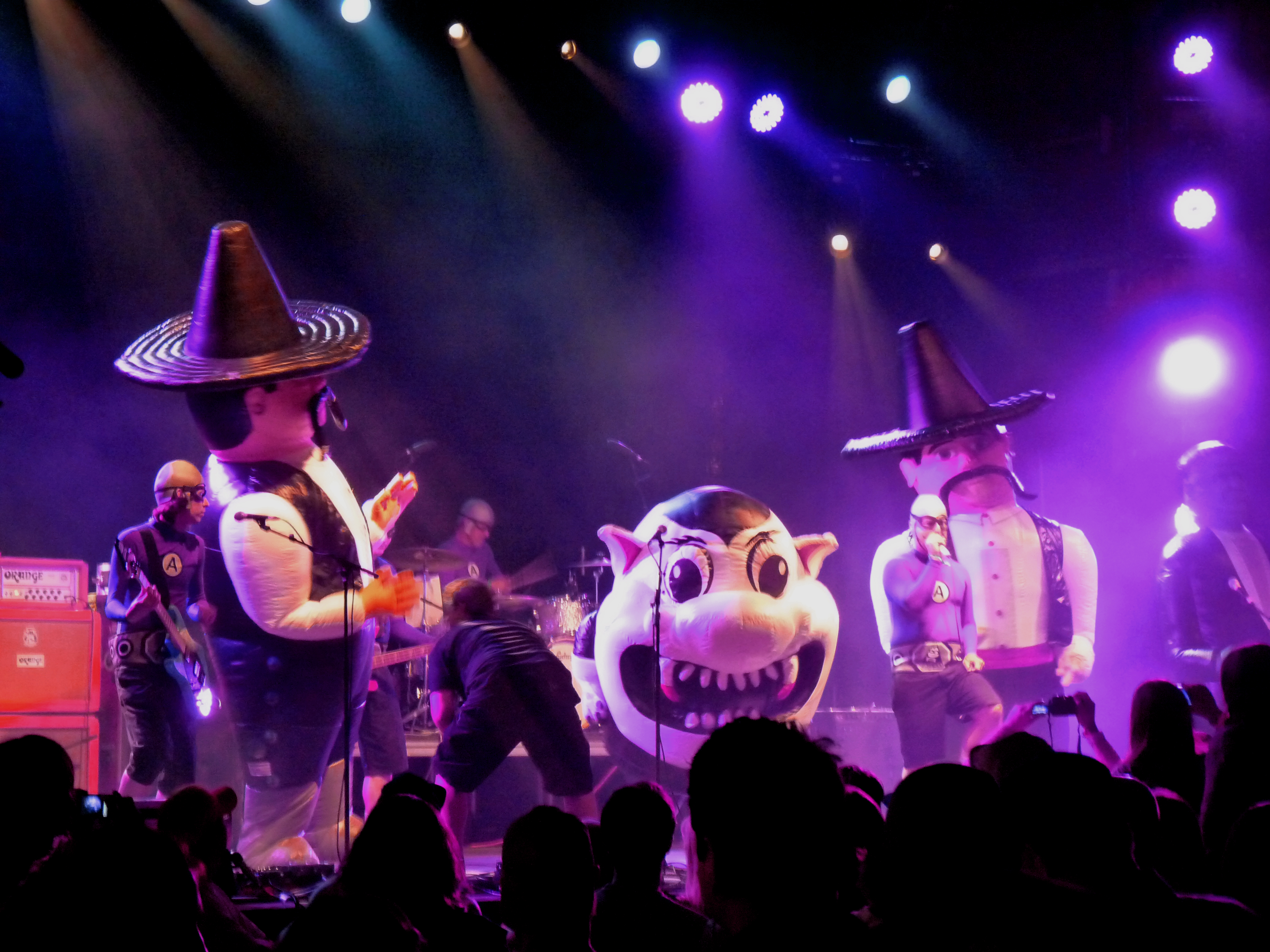 A photograph of American band The Aquabats performing at the Coachella Valley Music and Arts Festival in Indio, California on April 15, 2011.